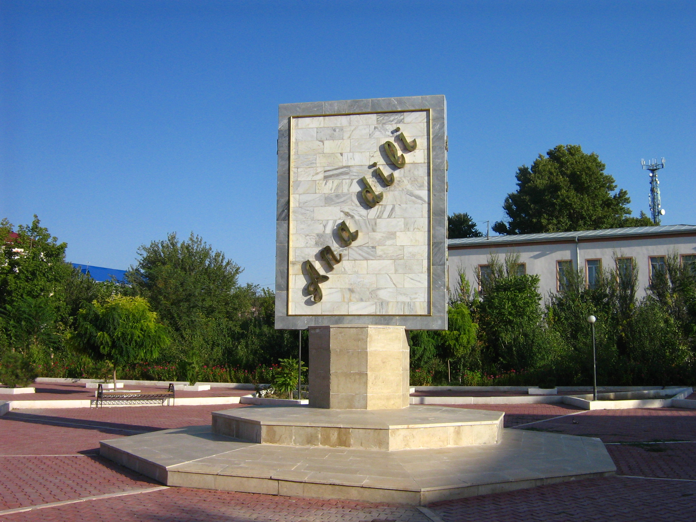 The monument for the Native (Azerbaijani) language in Nakhchivan, Azerbaijan